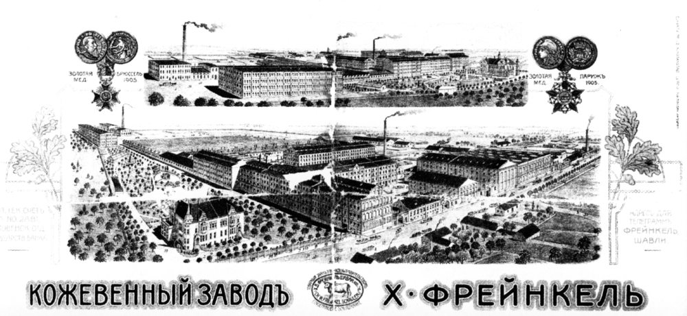 Logo of Chaimas Frenkelis tannery in Šiauliai, 1914